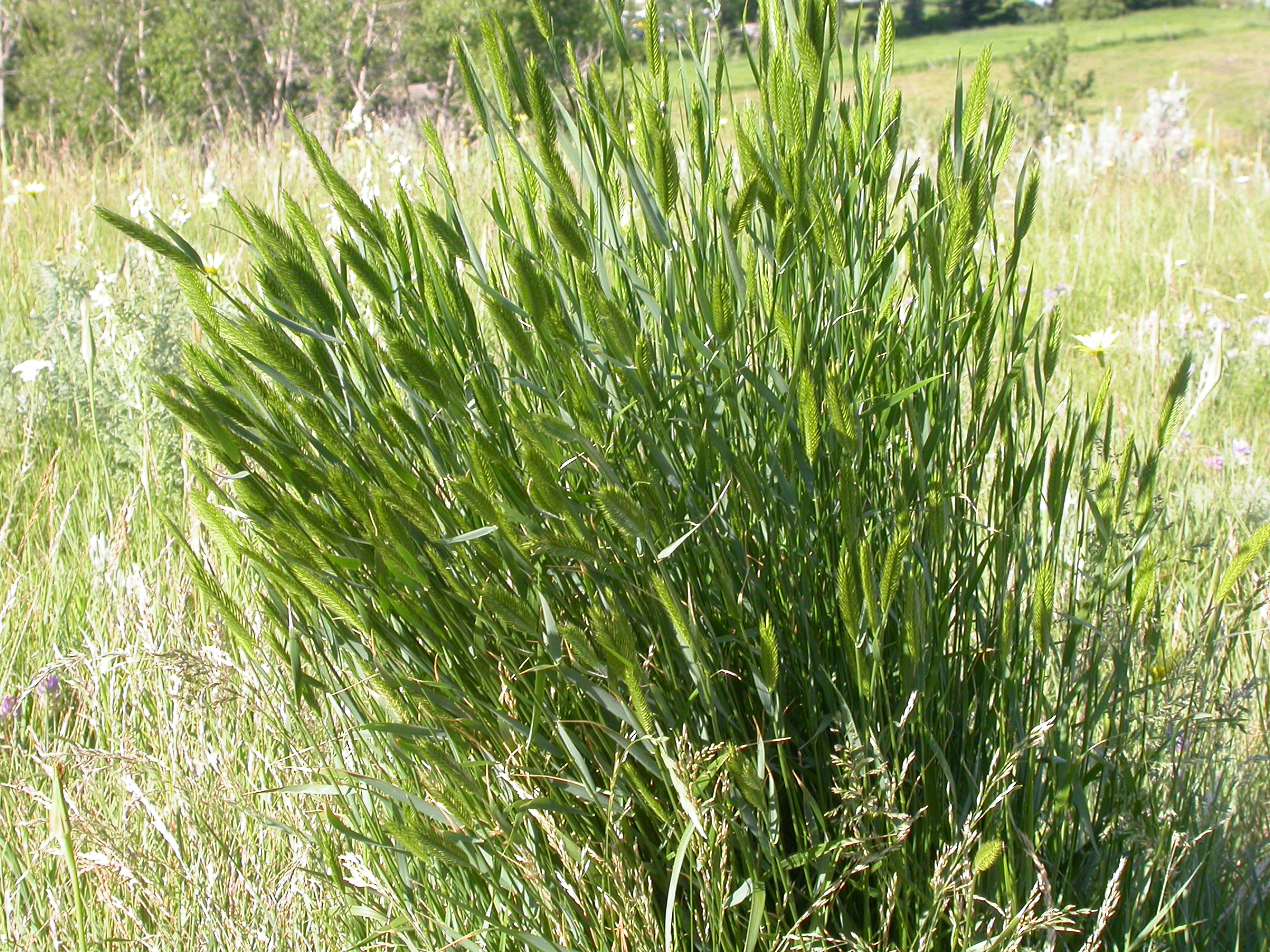 The perennial bunched habit is especially evident as summer progresses and surround herbs and grass are grazed and browsed leaving the silica-rich unpalatable crested wheatgrass standing tall and untouched.